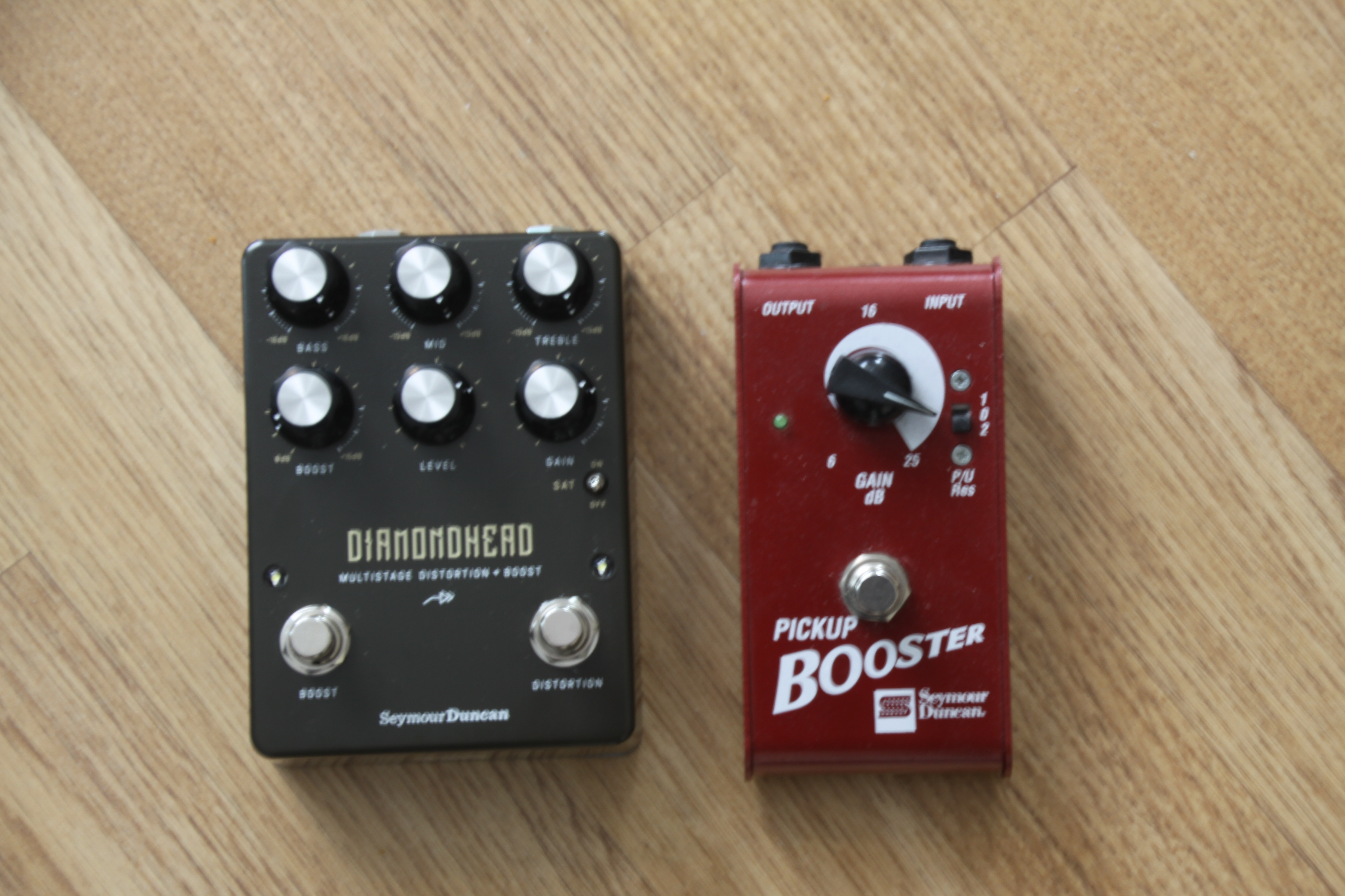 Seymour Duncan Diamondhead -distortion/booster, and Pickup Booster.